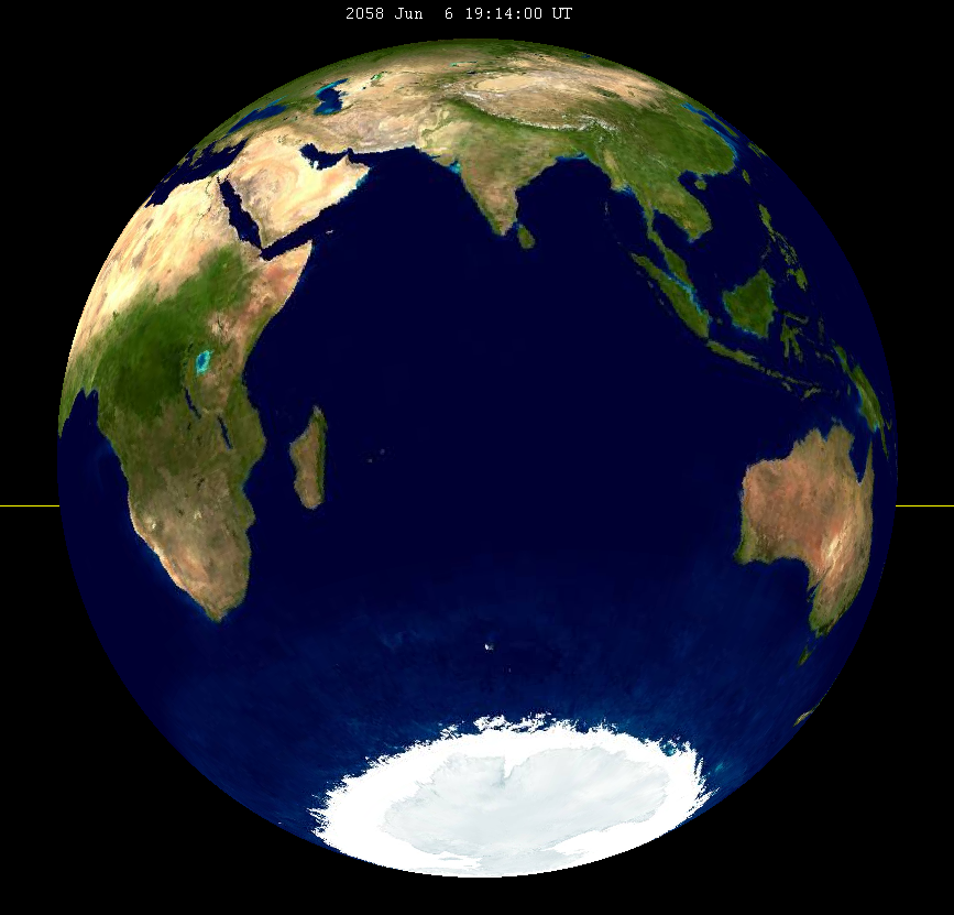 June 2058_lunar_eclipse view of earth The orientation of the earth as viewed from the center of the moon during greatest eclipse. thumb